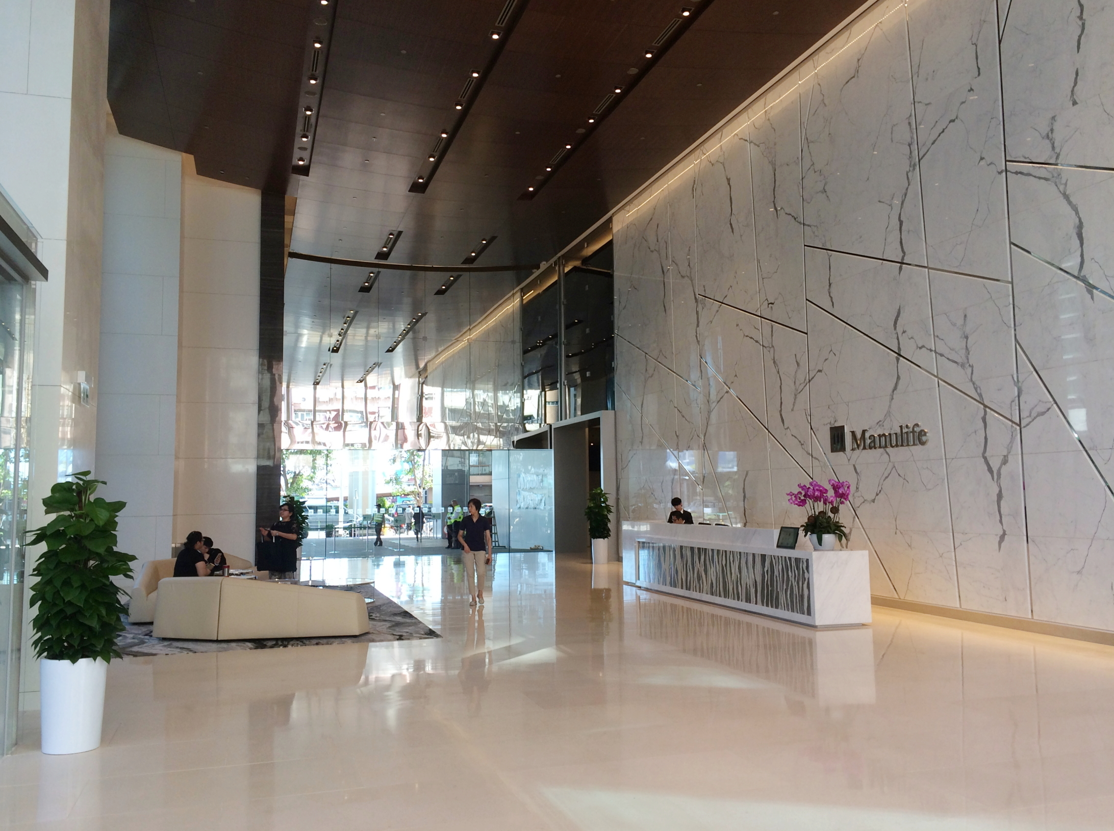 One Bay East Manulife Tower Lobby